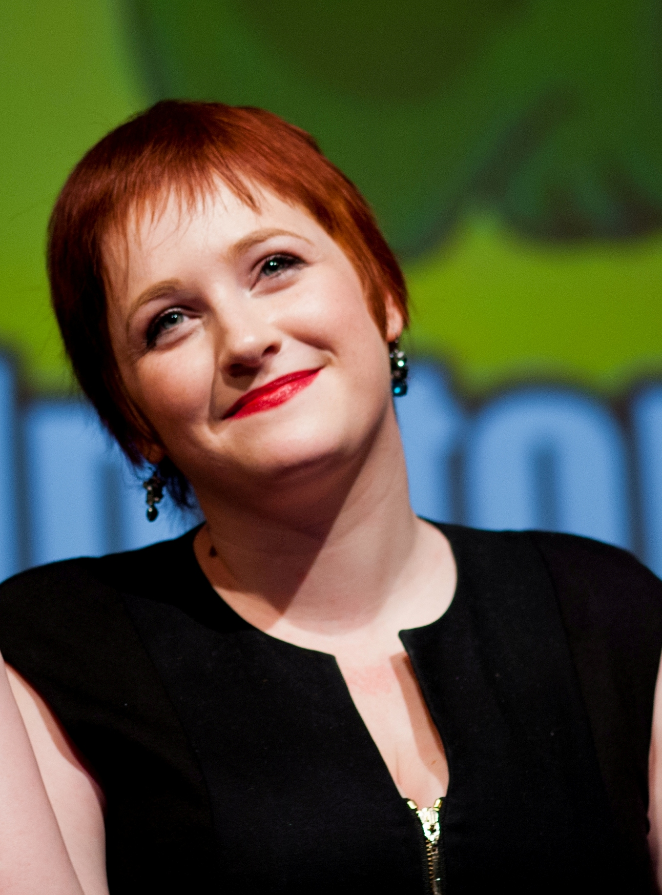 Derivative work of File:Elise Andrew - 27 September 2013.jpg. Elise Andrew at an I Fucking Love Science event in Toronto.